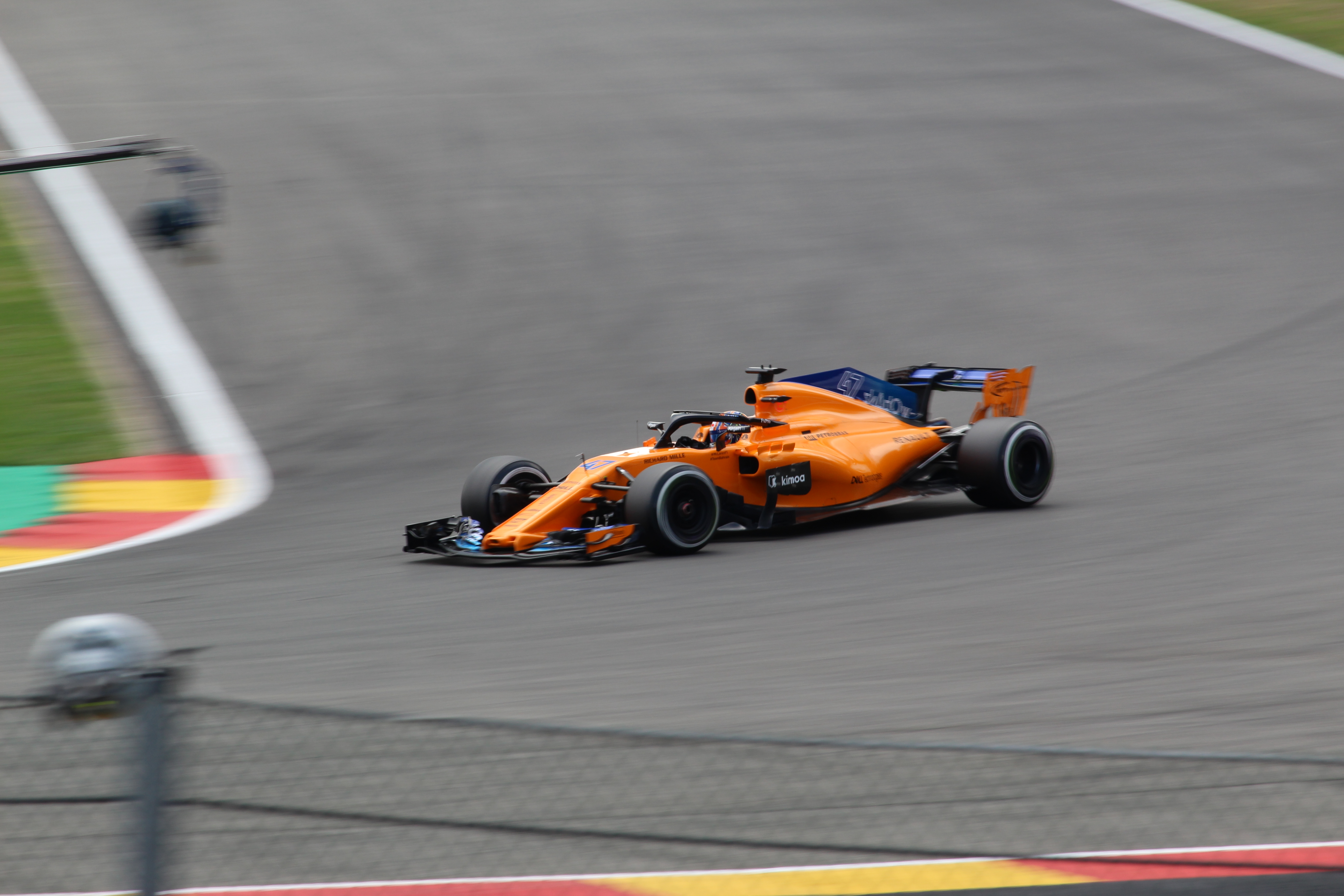 Lando Norris, at his first ever participation at a F1 Weekend in Free Practise 1 at the 2018 Belgium GP in Spa.